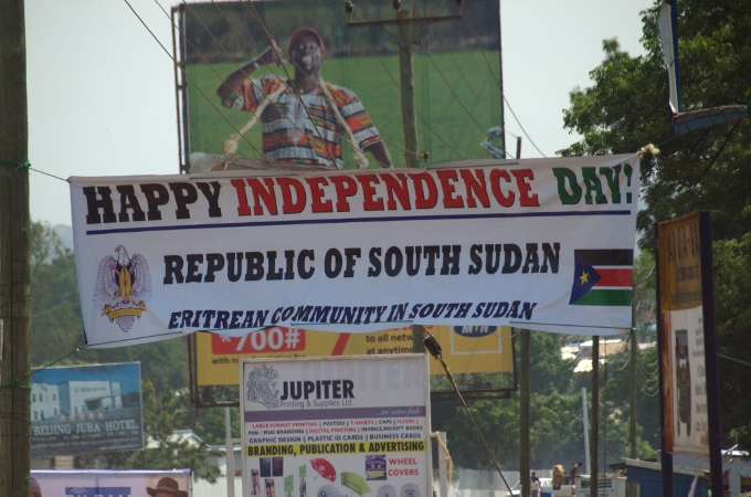 The results of the referendum are broadly supported by the expatriate community in Juba, which includes thousands of East Africans.